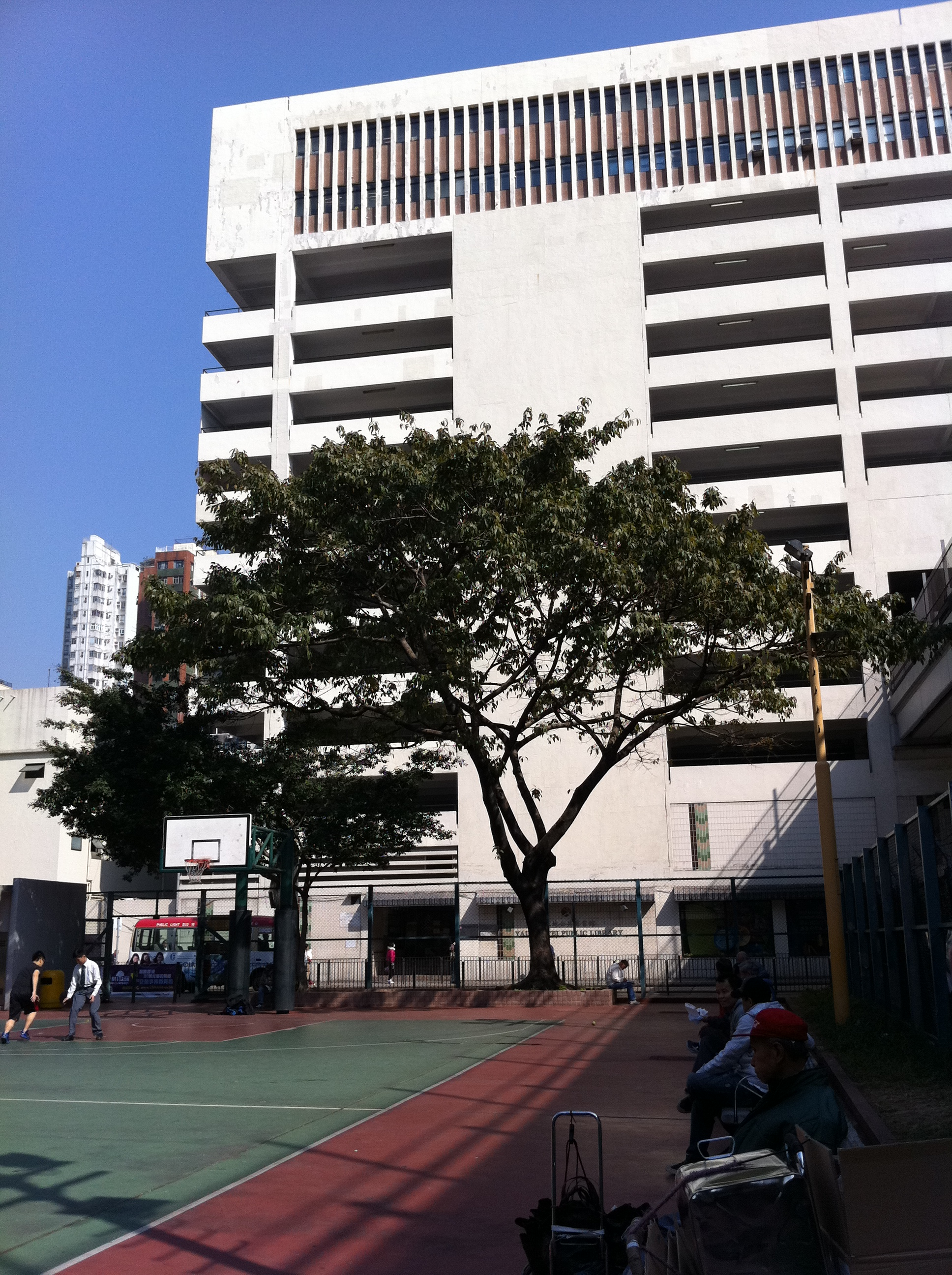 油麻地上海街/街市街遊樂場, Shanghai Street/Market Street Playground, view Yau Ma Tei Carpark Building, Hong Kong